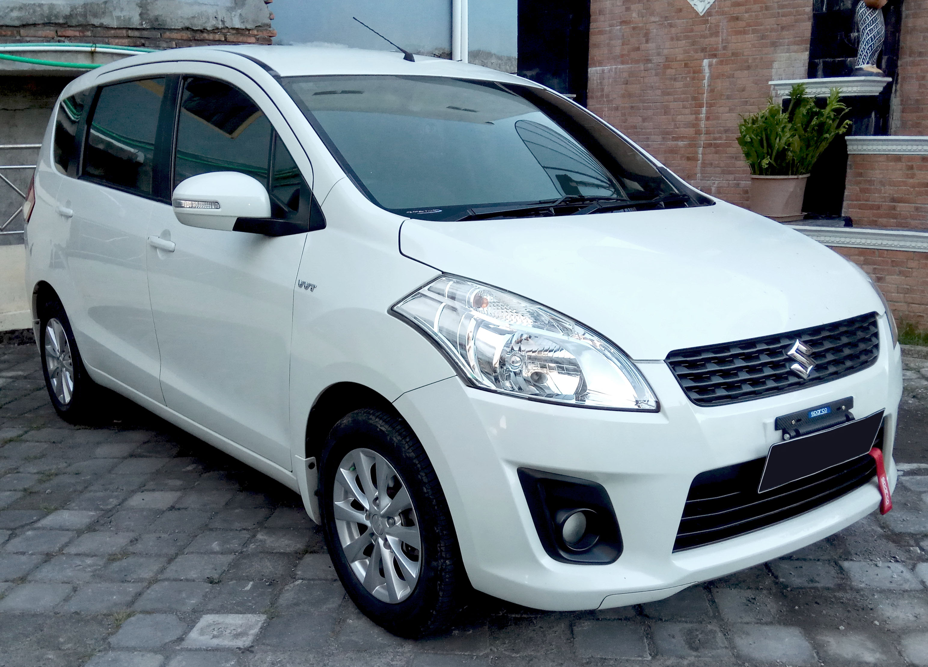 2012 Suzuki Ertiga GX photographed in Bandungan, Semarang, Central Java, Indonesia.